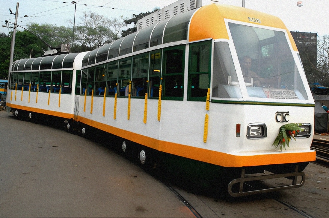 kolkata